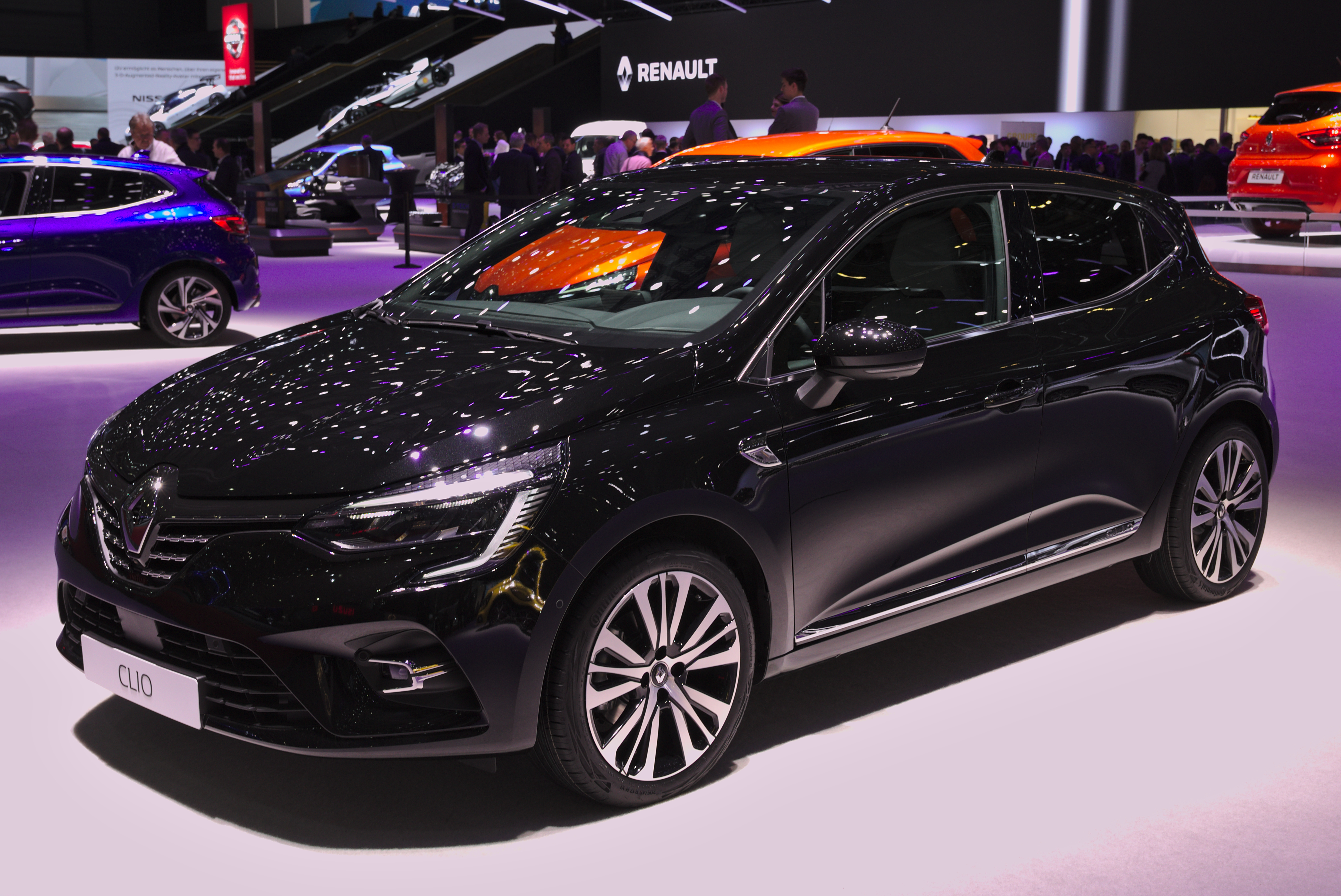 Renault Clio R.S. Line at Geneva Motor Show 2019